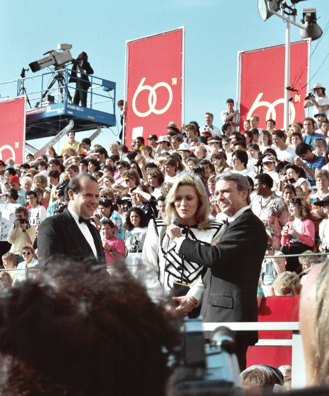 Faye Dunaway interviewed by Army Archerd on the red carpet at the 60th Annual Academy Awards2530